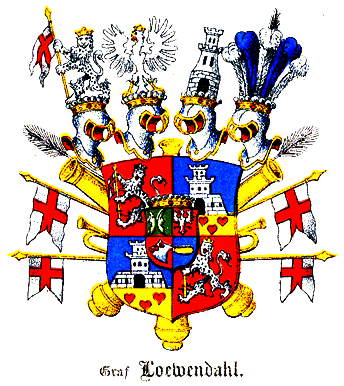 Coat of Arms of Löwendahl family